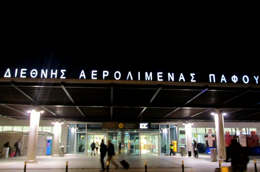 Paphos International Airport Republic of Cyprus